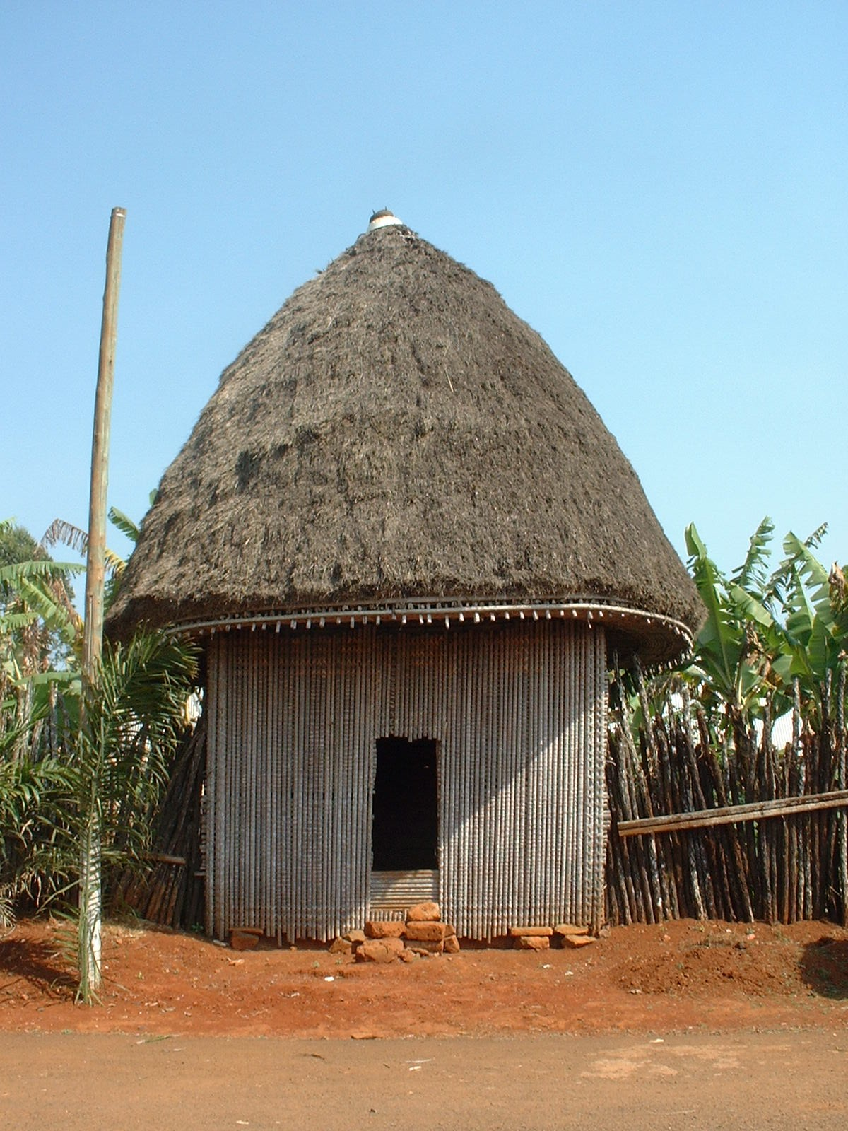 African Hut at Bana, a small village of Cameroon.